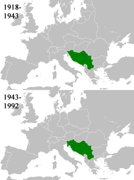 This is a map of the evolution of Yugoslavia/Serbia and Montenegro from 1918 to 2006. Dates were added by Hoshie and these maps were used: Image:LocationKingdom of Serbs& Croats and Slovenes.png and Image:LocationYugoslavia.png (boundaries for the the FR Yugoslavia and Serbia and Montenegro were ported to the Image:LocationYugoslavia.png image by using Image:LocationSerbiaAndMontenegro.png. This was done so the alignment would be correct). Each map is under the GFDL; because of this, the map is GFDL too.